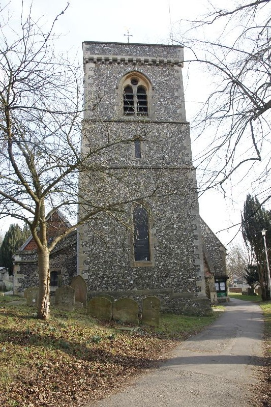 View of the bell tower on St Peter in Caversham.